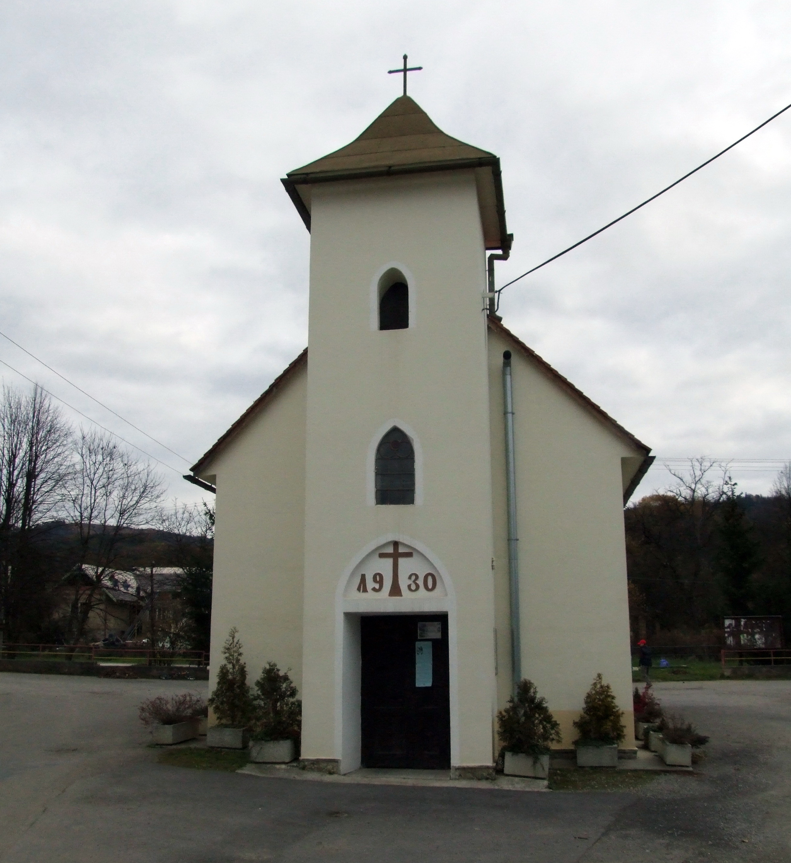 Solka The church in the village, district of Prievidza.